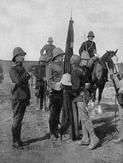 Solider of African origin kissing the Spanish flag in an oath.